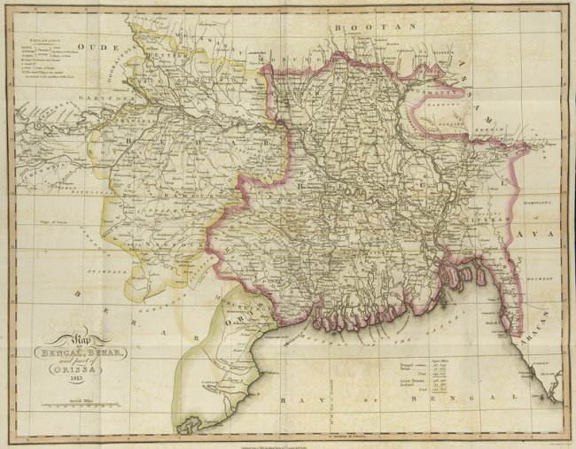 Map of Bengal, Behar, Orissa 1813